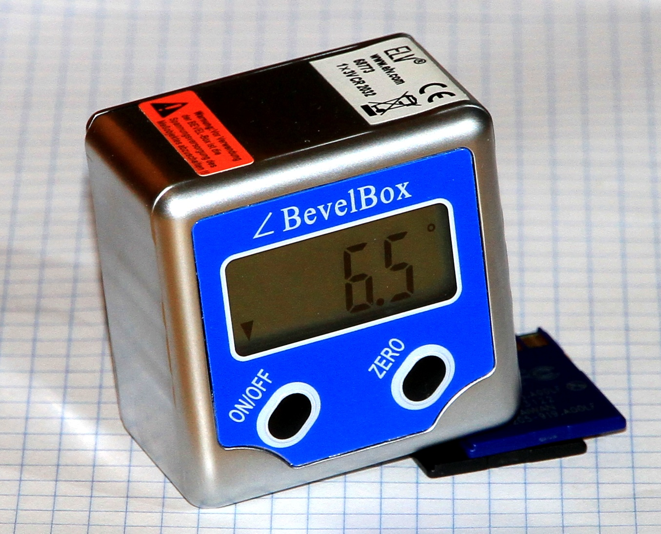 BevelBox. A small digital inclinometer with 1/10 degree resolution and ± 1/10 degree precision of the displayed result.